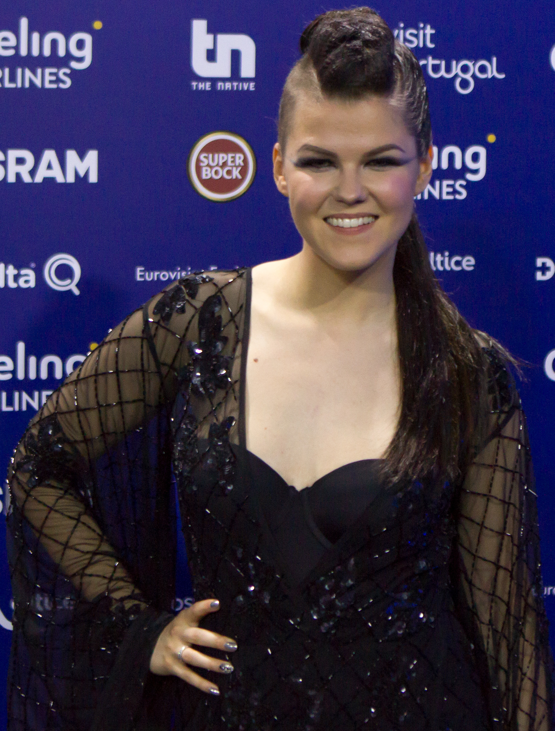 Press conference after the first Semi-Final of the 2018 Eurovision Song Contest